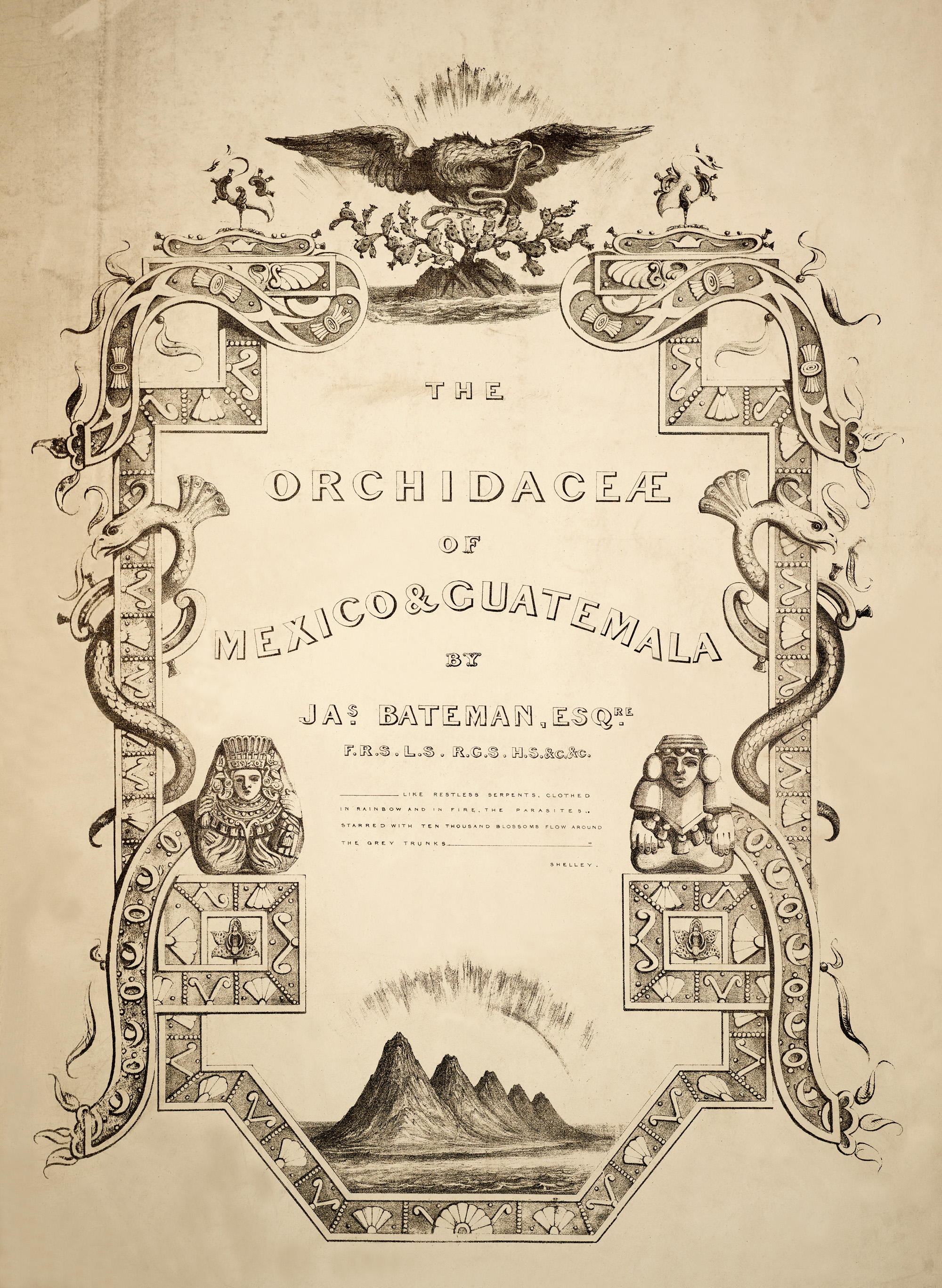 Title page of: The Orchidaceae of Mexico and Guatemala. By: Bateman, Jas. (1811-1897), London :Ridgway,1837-43.